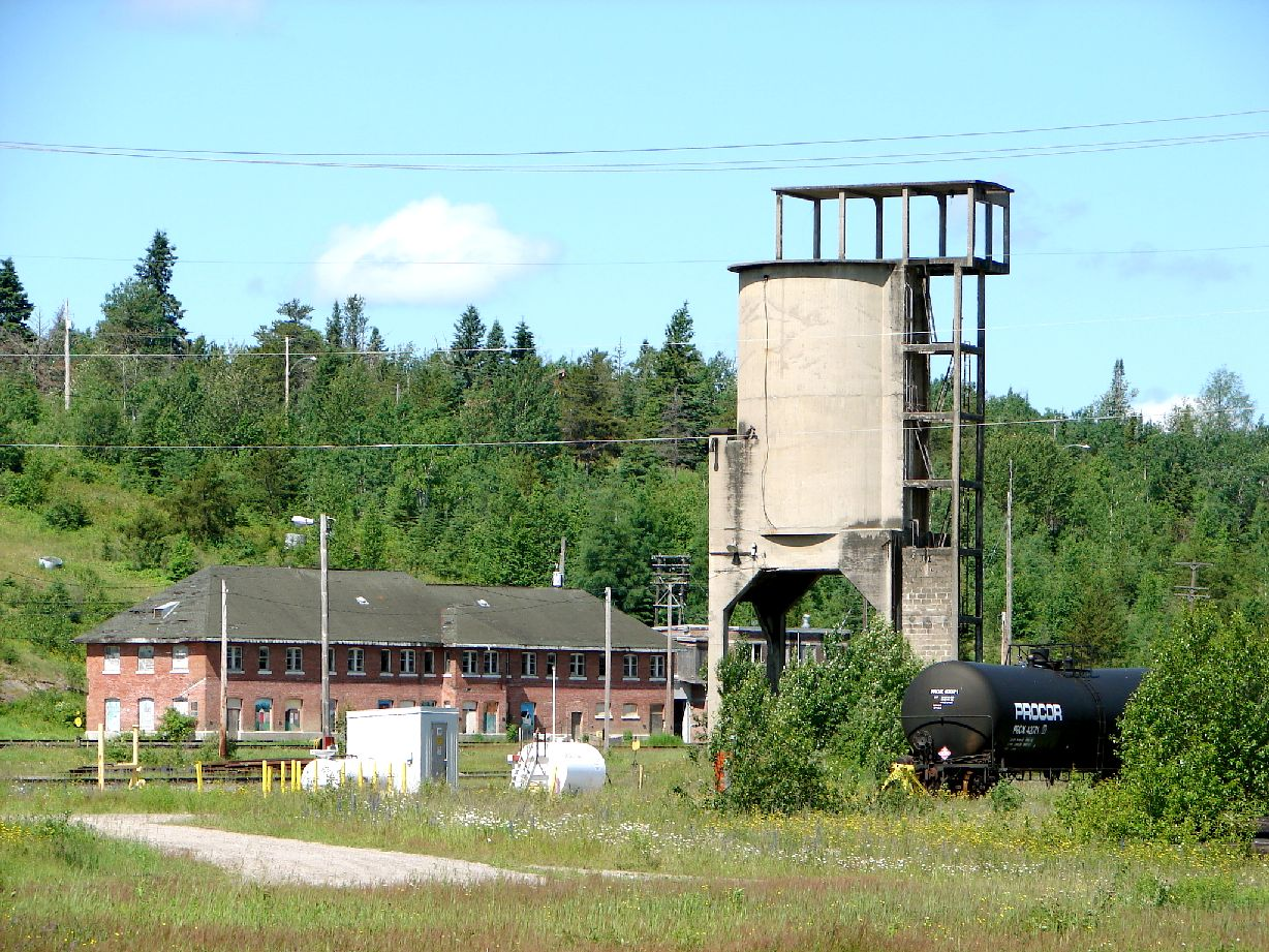 Derelict railway station in Hornepayne, Ontario, Canada